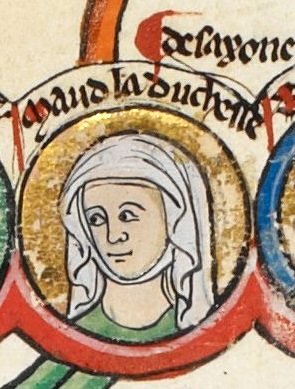 Matilda of England